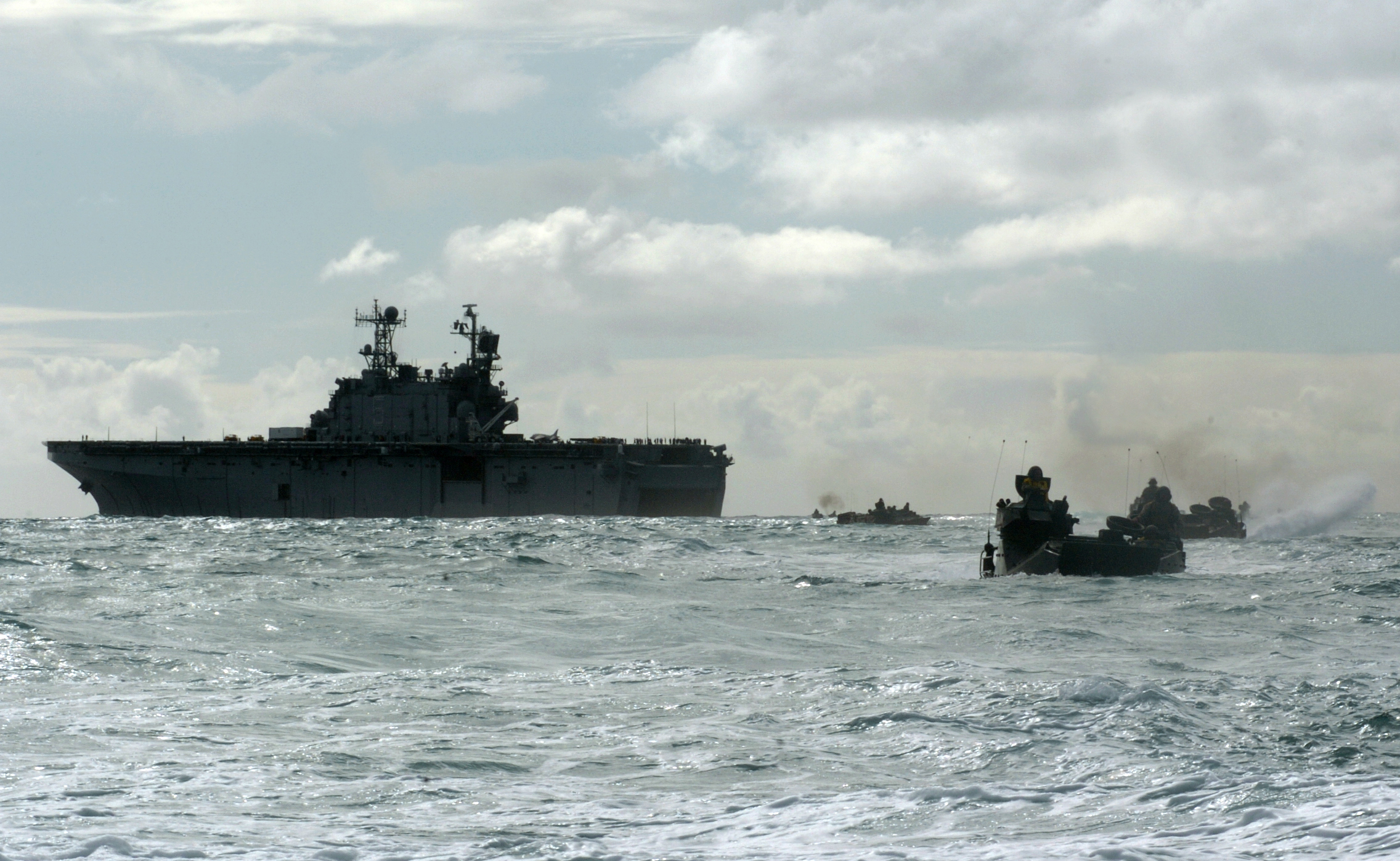 Pacific Ocean (June 27, 2005) – Amphibious assault vehicles, assigned to the 3rd Amphibious Assault Battalion, travel through the Pacific Ocean after departing the amphibious assault ship USS Peleliu (LHA 5) off the shores of Hawaii. The Marines went ashore at Marine Corps Training Area Bellows, Hawaii to conduct infantry and amphibious training. U.S. Navy photo by Journalist 2nd Class Zack Baddorf (RELEASED)